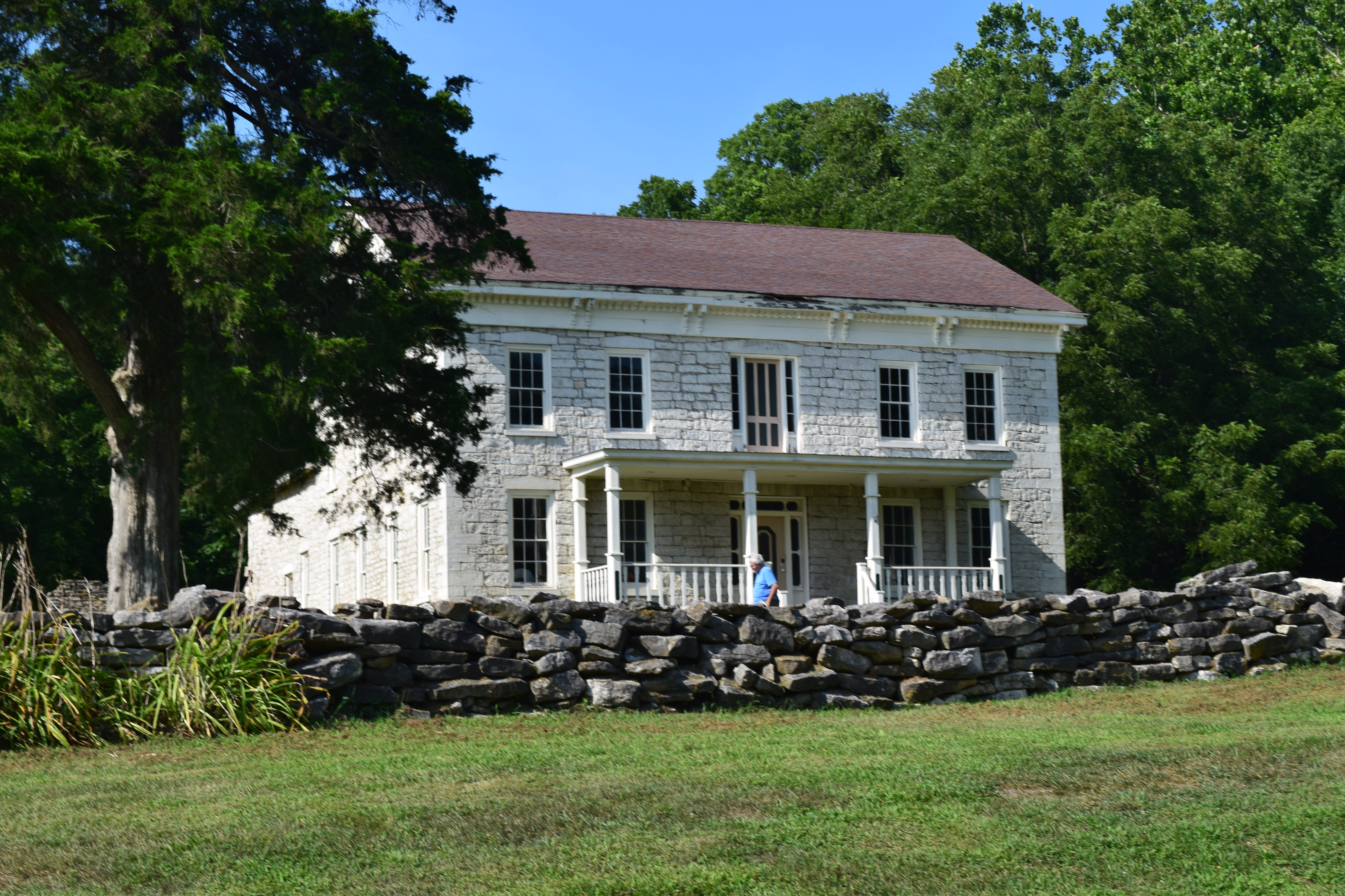 The James John Eldred House on Bluffdale Township Road north of Eldred, Illinois. The house is listed on the National Register of Historic Places.